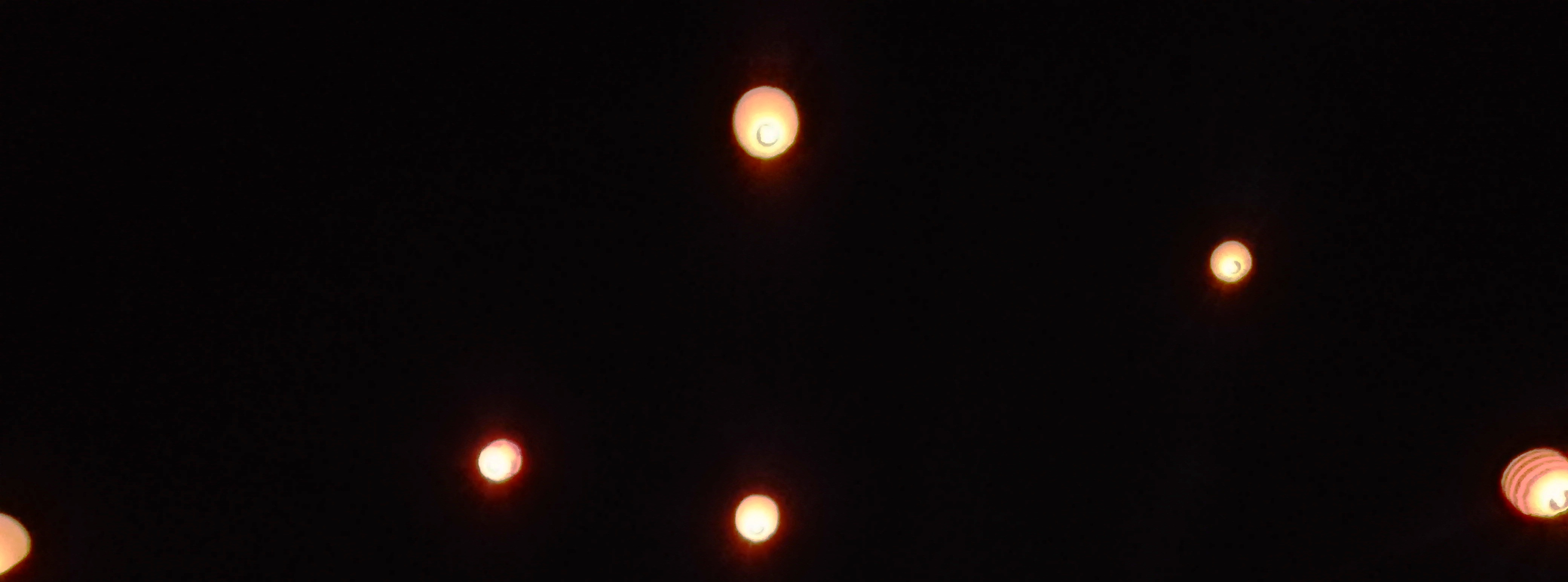 fanush at wangpoye festival, bandarban